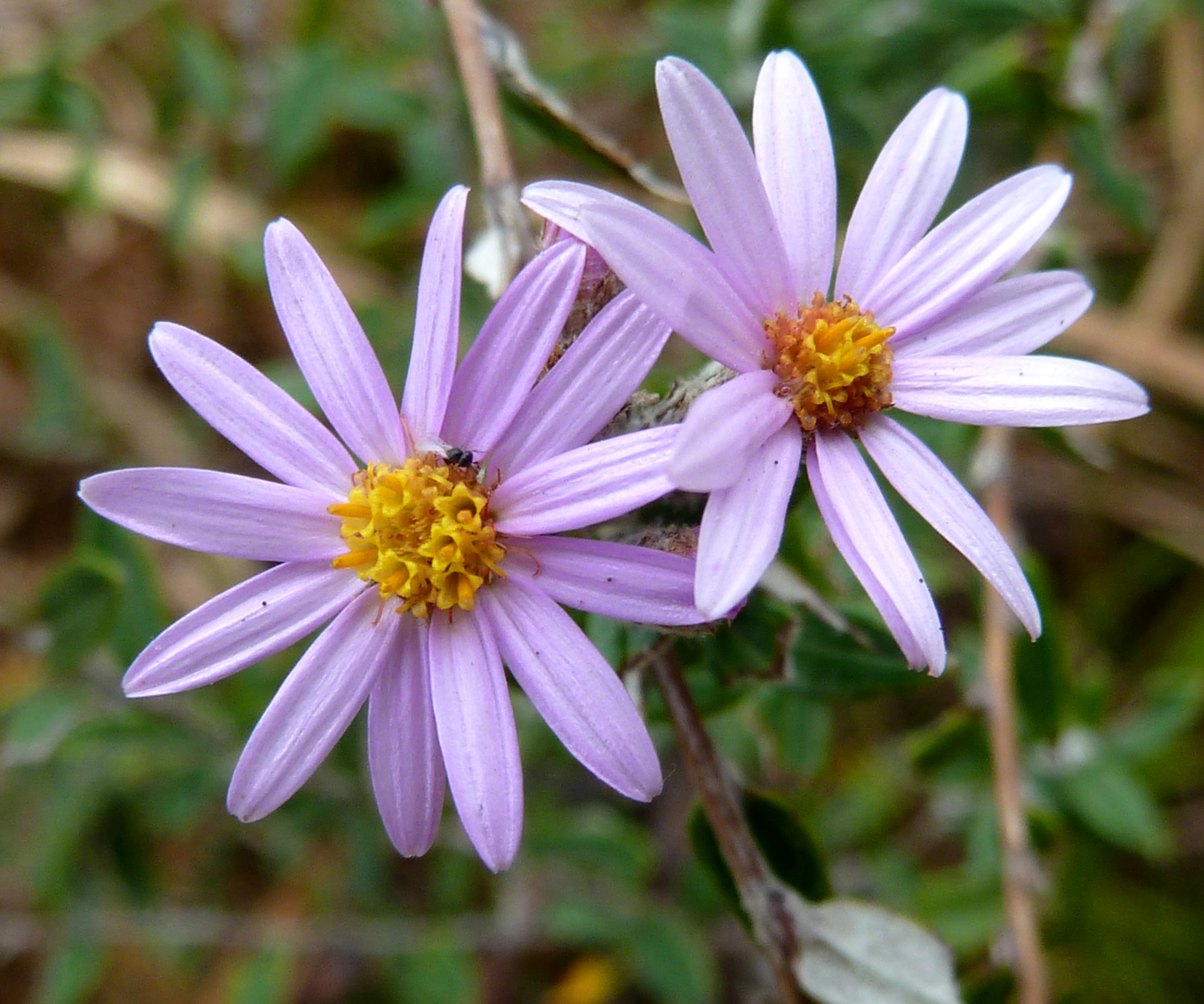 Bushman's tea growing in sourveld of Krantzkloof Nature Reserve, KwaZulu-Natal